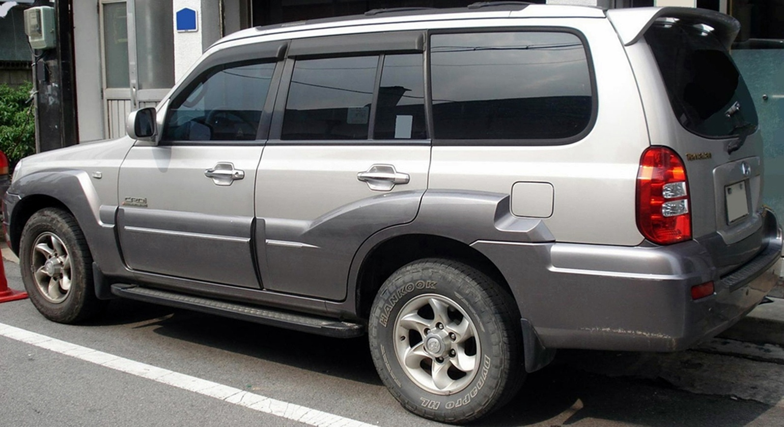 Hyundai Terracan